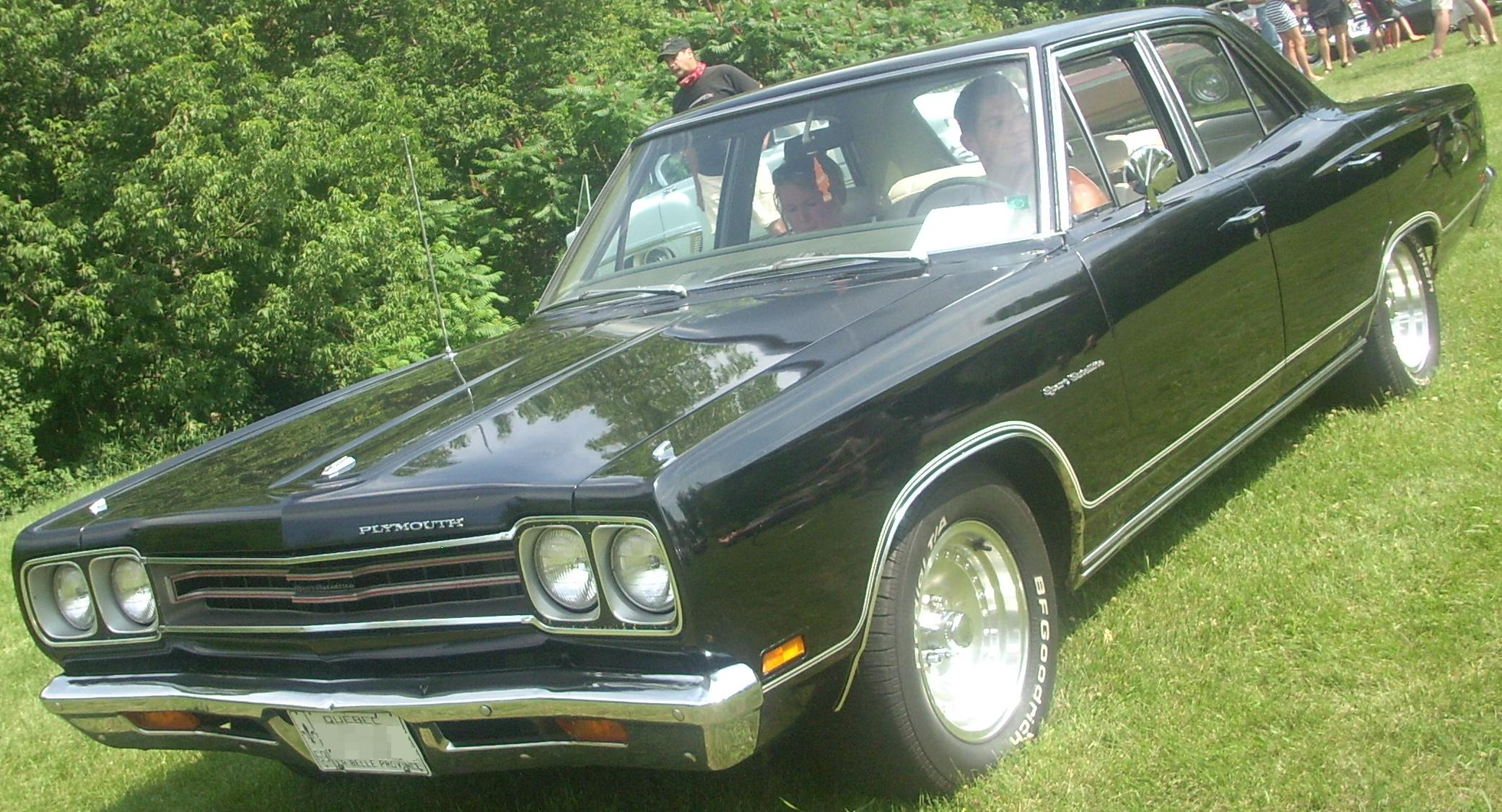 1969 Plymouth Sport Satellite photographed in Laval, Quebec, Canada at Auto classique Laval 2010.